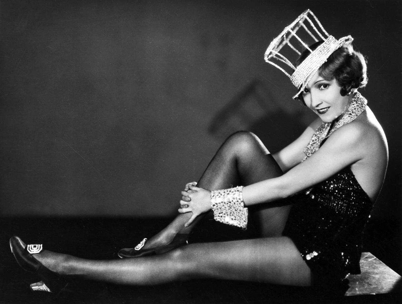 Bessie Love by Ruth Harriet Louise